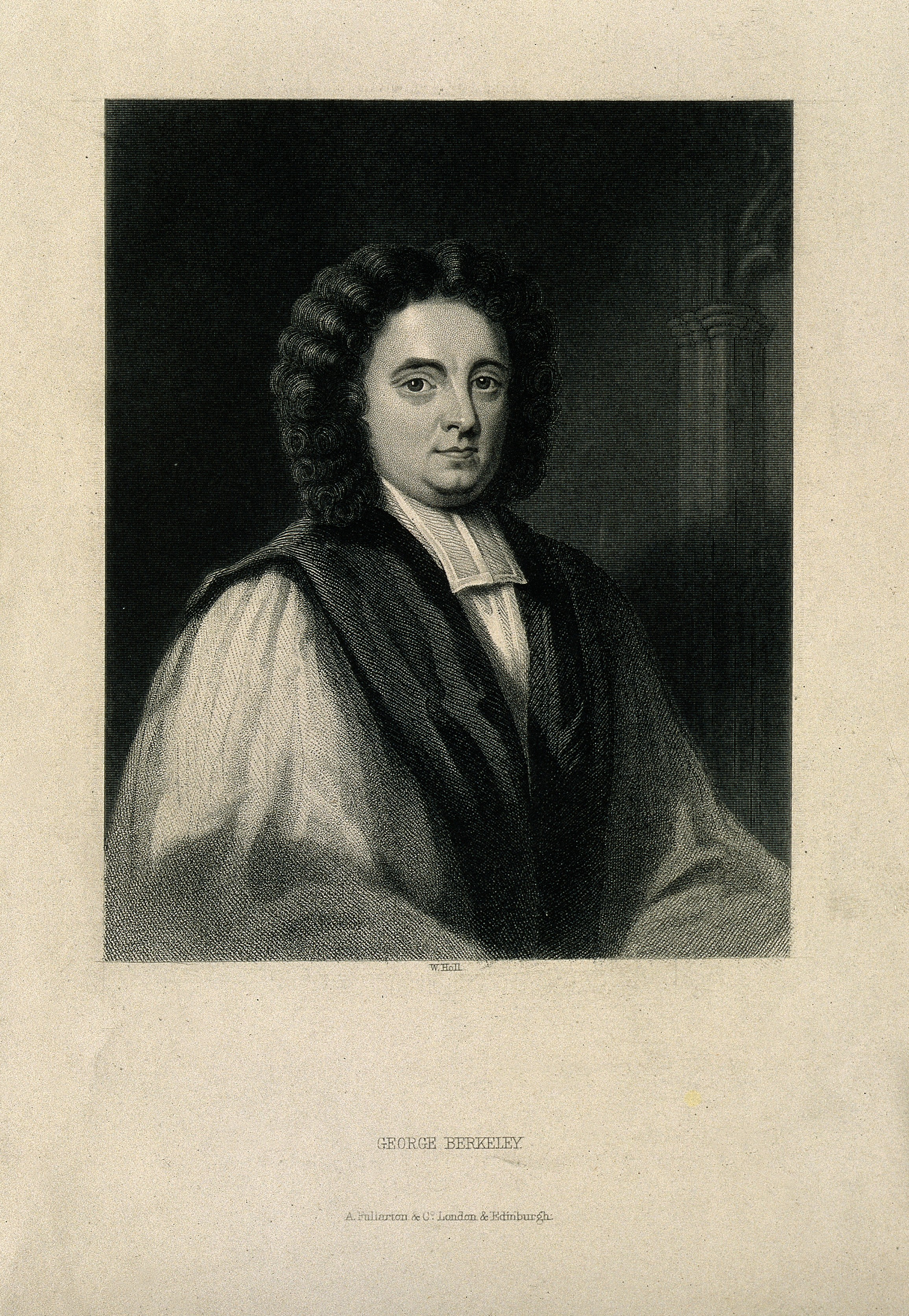 George Berkeley. Line engraving by W. Holl. Iconographic Collections Keywords: portrait prints; berkeley, george, bishop of cl; engravings; William Holl; George Berkeley